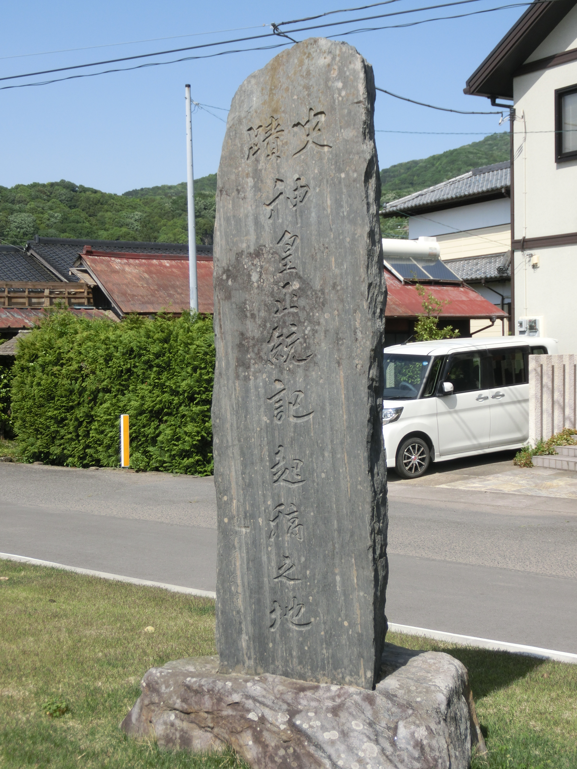 Jinno Shotoki monument